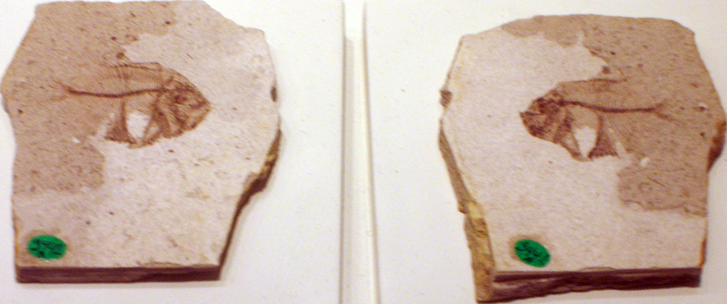 Palaeocentrotus böggildi fossil at the Geological Museum, Copenhagen.